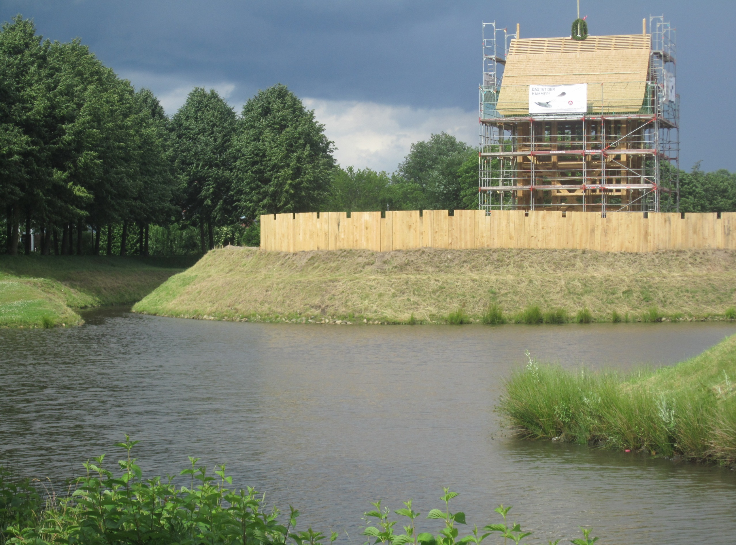 Reconstructed wooden castle tower of "Castrum Vechtense" in June 2013